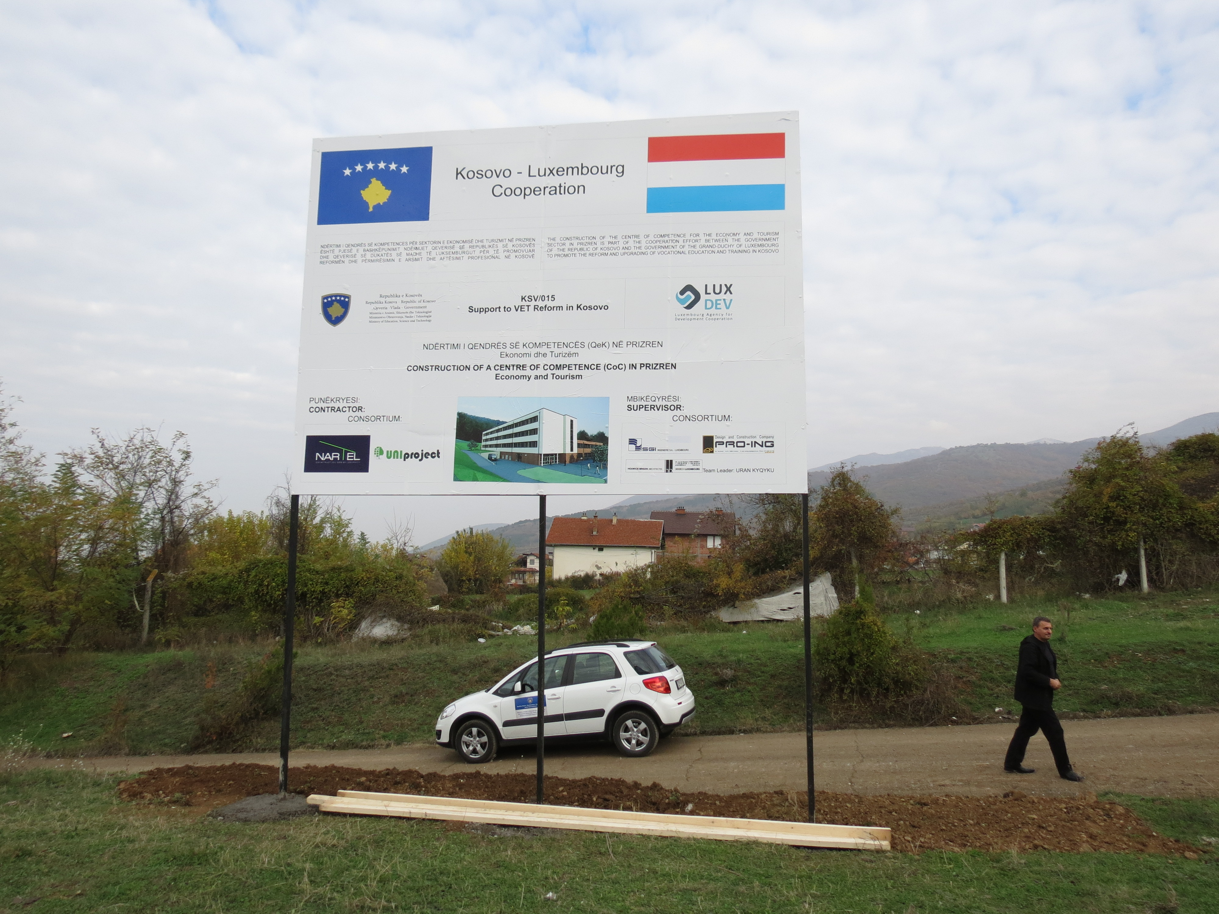 Billboard with information regarding the construction of a Centre of Competence for economy and tourism in Prizren, in the Kosovo; a project implemented by the Kosovo Ministry of Education and LuxDev, the Luxembourg Agency for Development Cooperation.